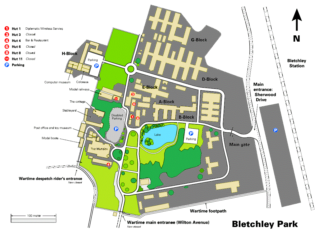 Map of bletchley-park